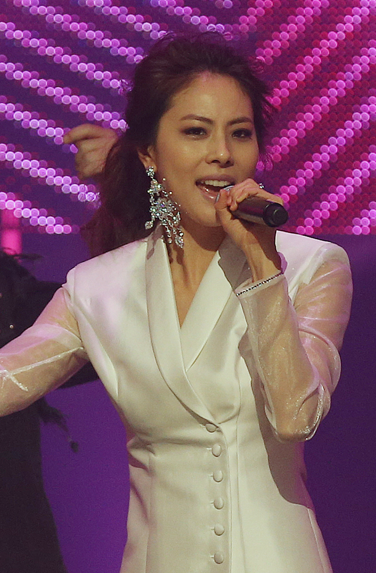 Mcountdown Park Jiyoon ‘Beep’ CJ E&M Center, Sangam-dong, Mapo-gu, Seoul 2014.03.06. Ministry of Culture, Sports and Tourism Korean Culture and Information Service ( Jeon Han 엠카운트다운 생방송 박지윤 ‘Beep’ 2014-03-06 CJ E&M 센터 문화체육관광부 해외문화홍보원 코리아넷 전한